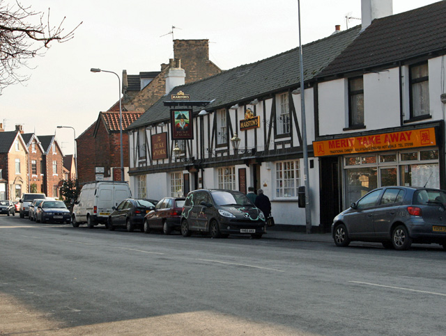 The Duke of York, Sutton upon Hull A public house, situated in the Main Street of Sutton, and much beloved of bellringers on a Friday night after practice.